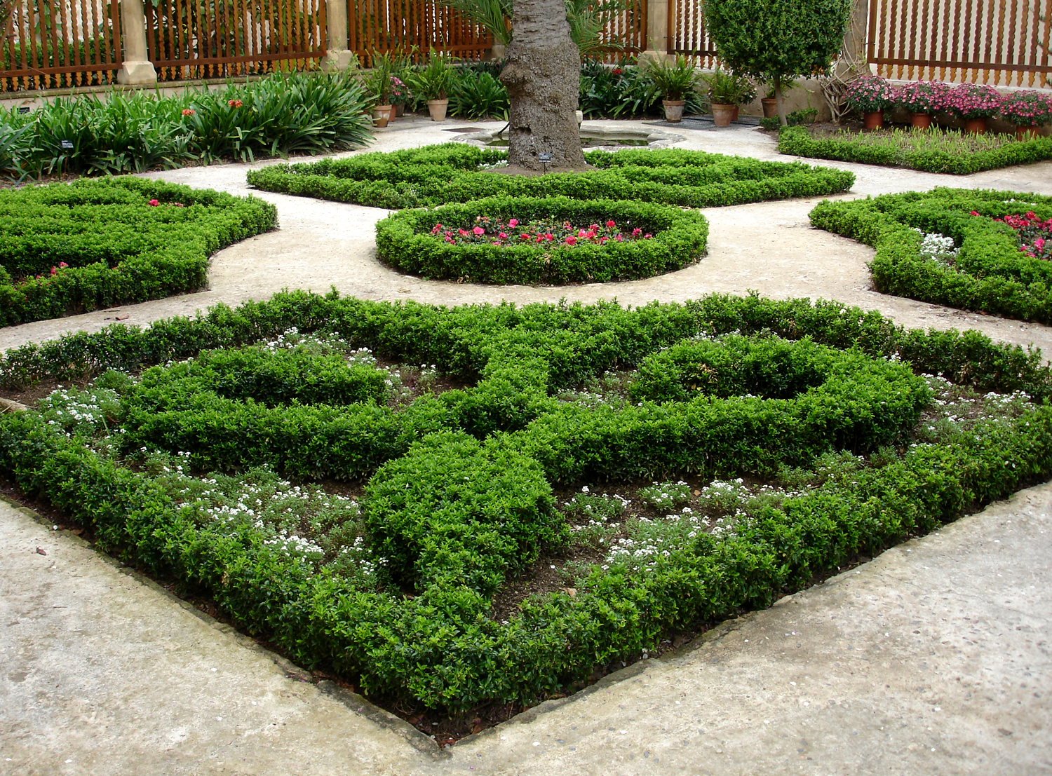 Jardí del Bisbe — Mallorca, in the Balearic Islands.